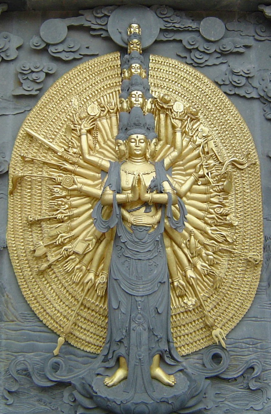 Relief image of an eleven-faced depiction of the bodhisattva Avalokiteśvara, from Jiuhuashan in China's Anhui province. Photograph taken by uploader June 2004.